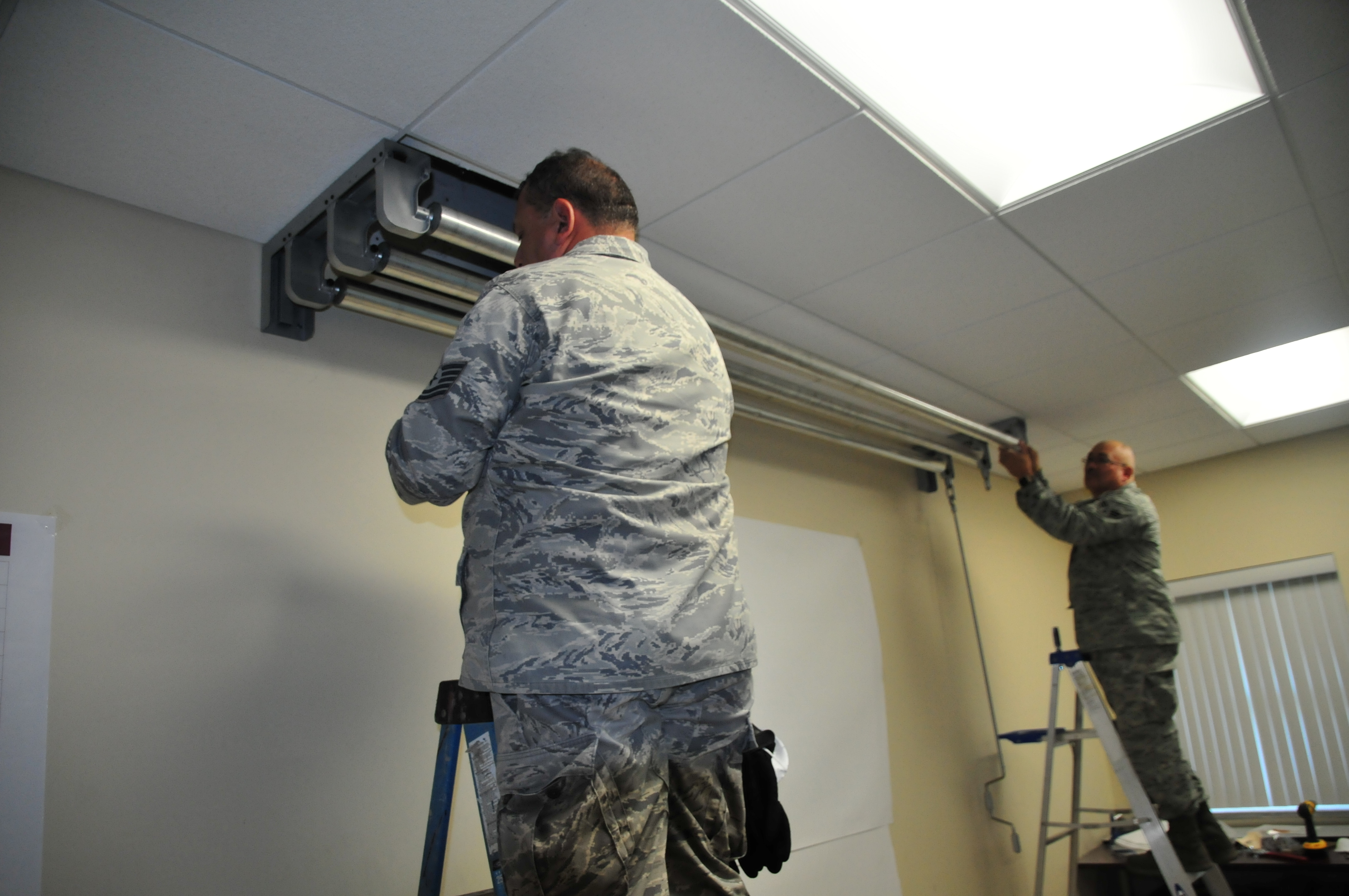 Nine members of the 1st Air Base Group-Puerto Rico Air State Guard spent a week on island travelling to the different installations and offices to conduct visual inspections and minor repairs to the facilities on St. Croix. The team spent a productive week conducting visual inspections and repairs to all VING facilities. They toured the buildings with VING Construction and Facility Management Office staff offering suggestions for repairs and maintenance.